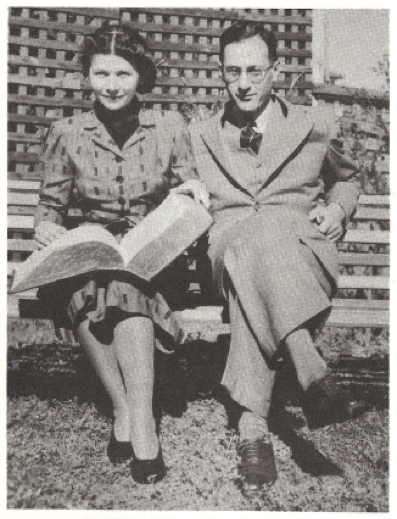 Dr Walter Diesendorf, engineer, and Dr Margaret Diesendorf (nee Mate), poet. Both are Austrian-born Australians who made significant contributions to Australian life, industry , education.